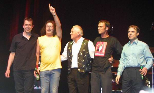 Procol Harum at the turn of the century